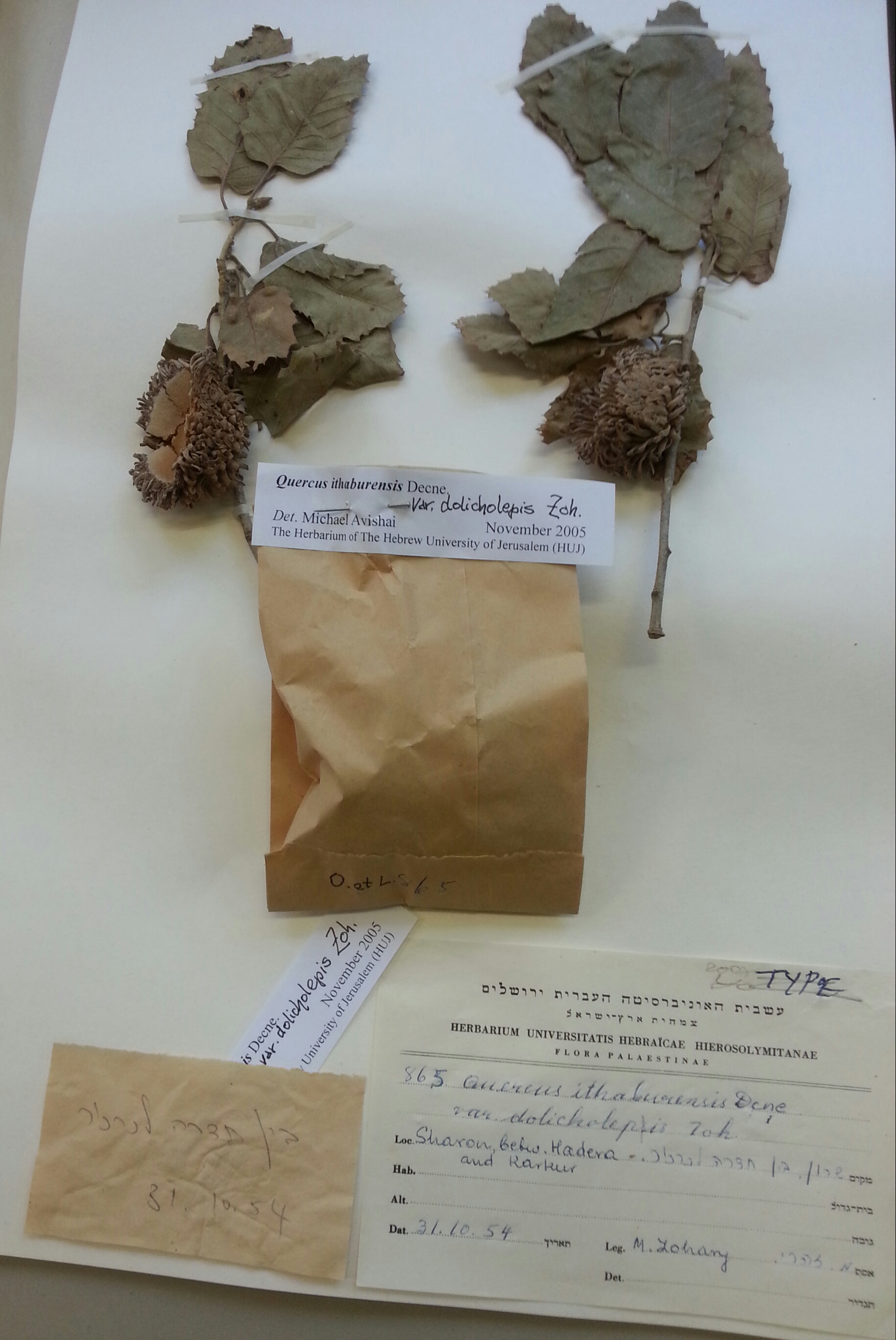 oak tree from 1954 at the Hebrew U Herbarium